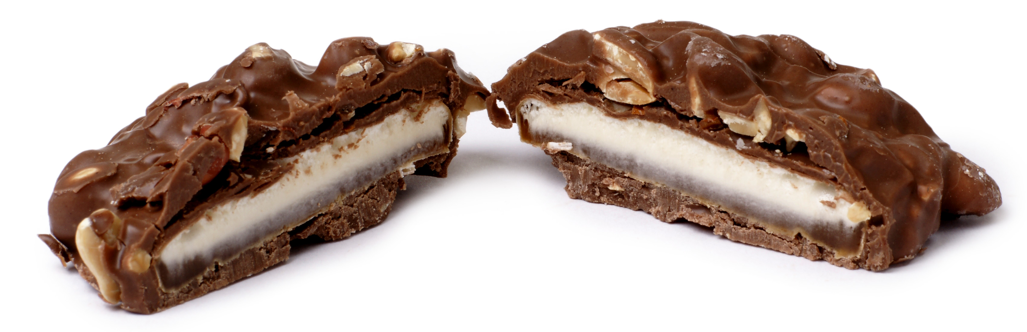 A GooGoo Cluster split open. GooGoo Clusters are made by the Standard Candy Company.